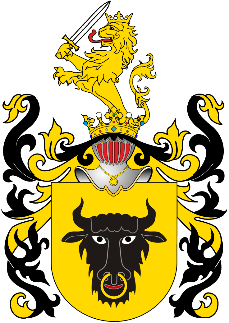 Polish noble family coat of arms Leszczyński